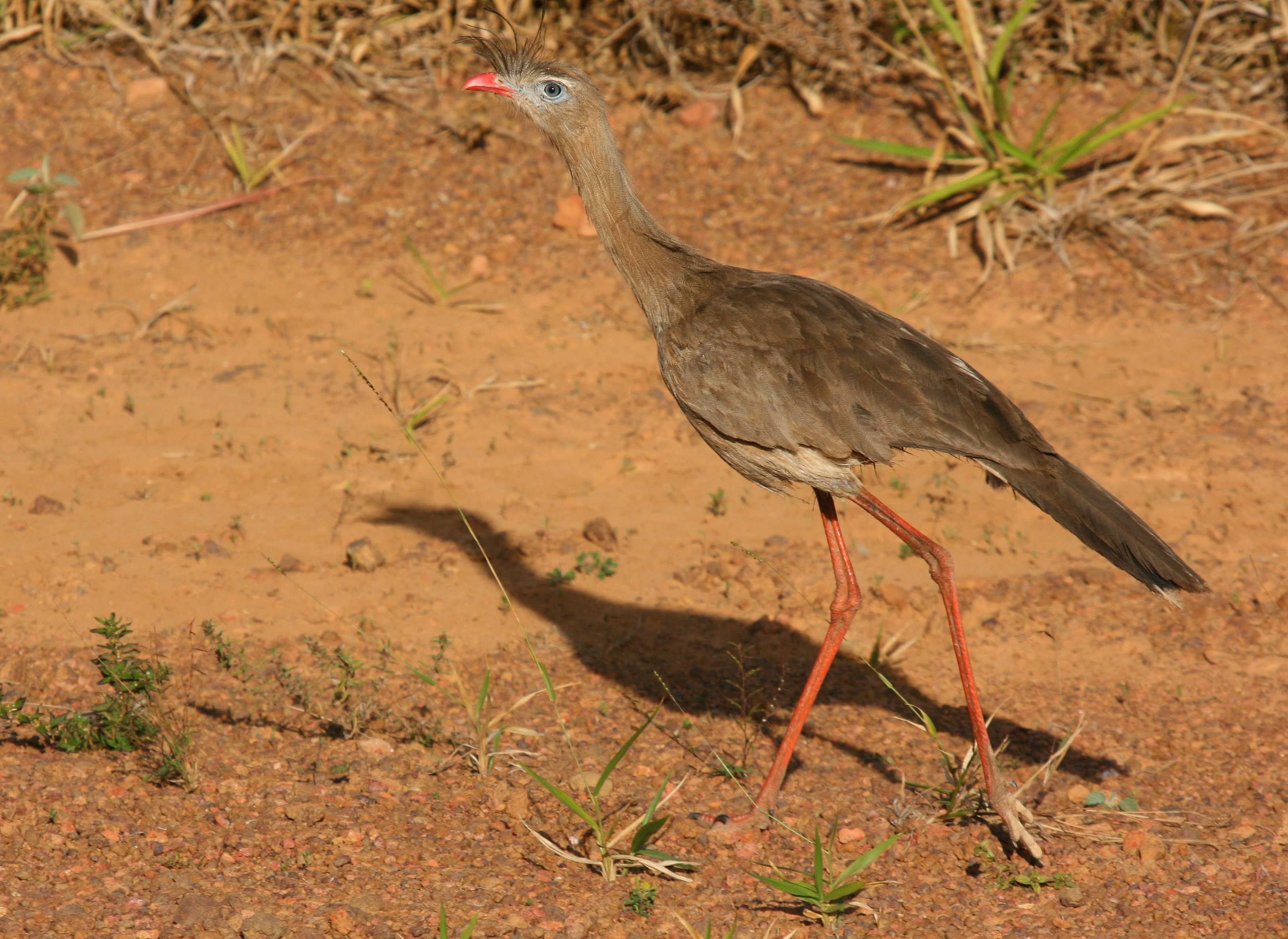 A Red-legged Seriema near Goiânia, Goiás, Brazil.